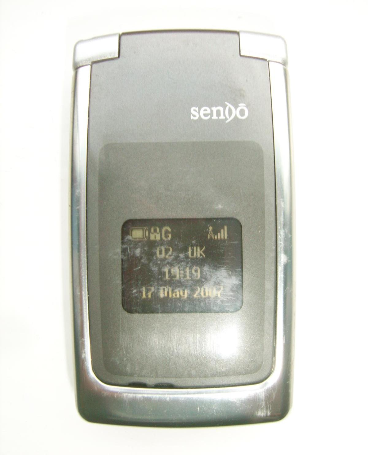 My photo of a Sendo M550. The phone is closed in the photo. The symbols at the top, from left to right, mean full battery, locked, GPRS available and full signal. It can also be seen that the phone is using the O2 UK network.